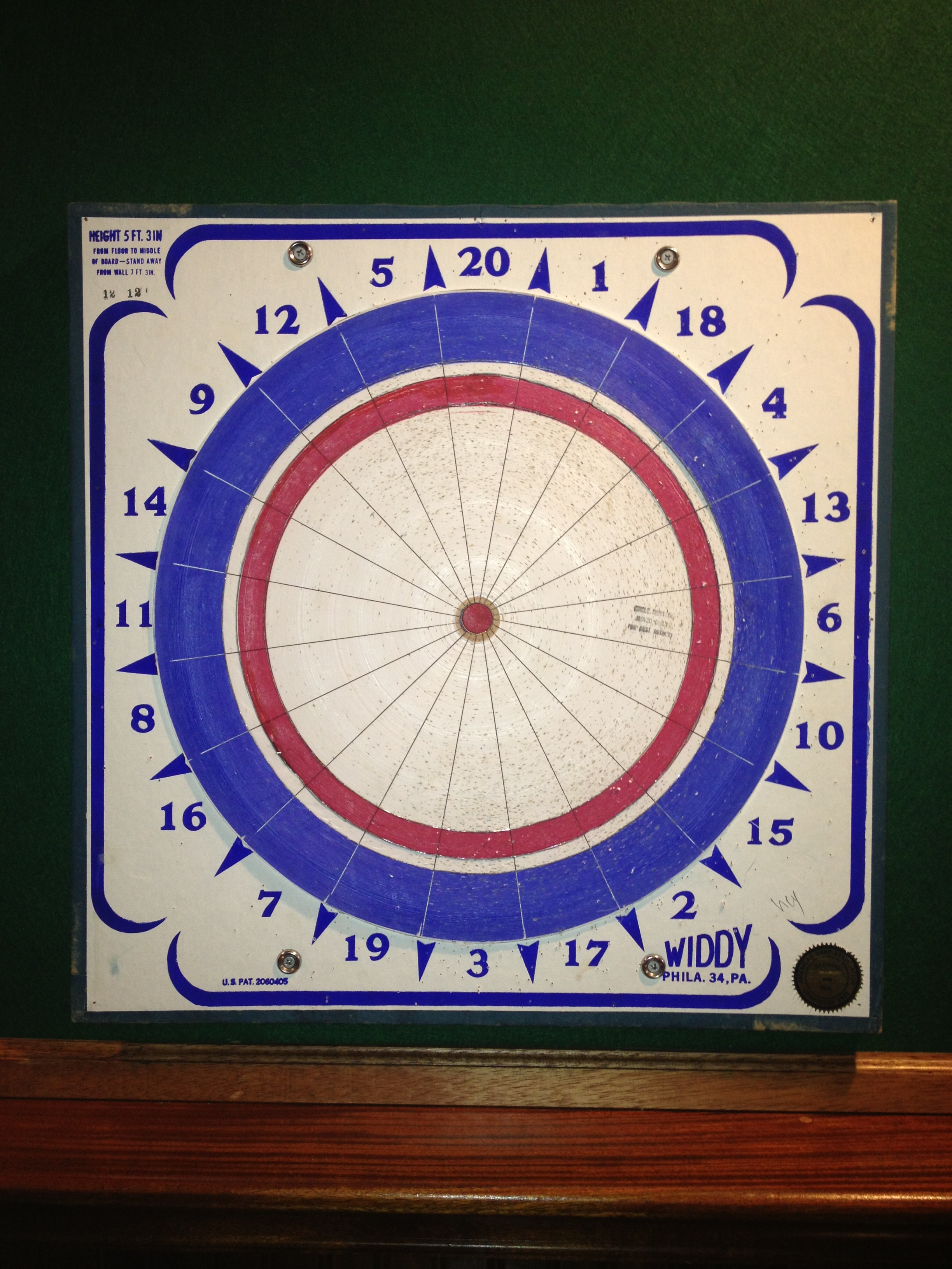 Photo of a "Widdy" brand American dart board, taken at Leggett's Food and Liquore Club, Manasquan Beach, NJ